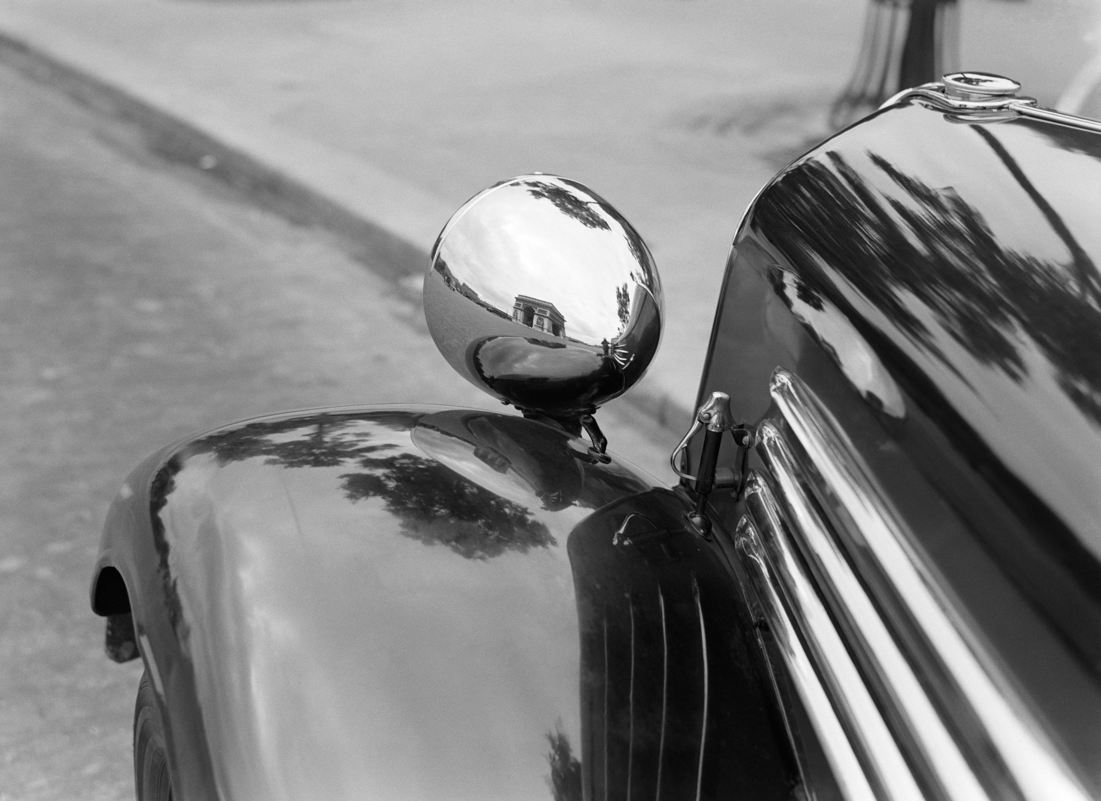 A car at Place de l'Étoile with the Arc de Triomphe reflected in the headlamp.